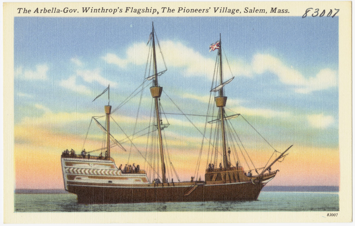 File name: 06_10_001435 Title: The Arbella -- Gov. Winthrop's Flagship, The Pioneers' Village, Salem, Mass. Created/Published: Tichnor Bros. Inc., Boston, Mass. Date issued: 1930 - 1945 (approximate) Physical description: 1 print (postcard) : linen texture, color ; 3 1/2 x 5 1/2 in. Genre: Postcards Subjects: Arbella (Ship); Vessels Notes: Title from item. Collection: The Tichnor Brothers Collection Location: Boston Public Library, Print Department Rights: No known restrictions